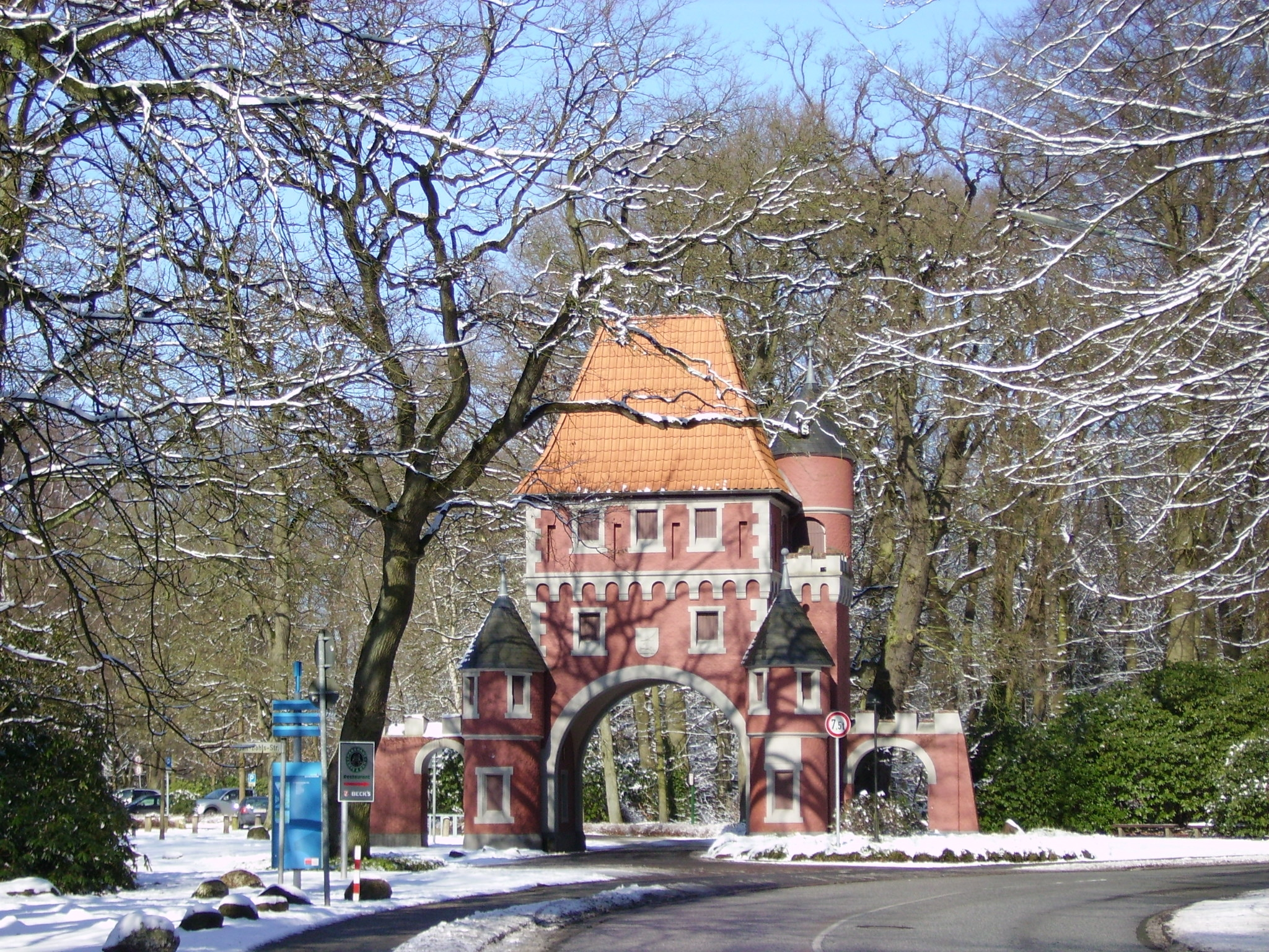 The Park Gate in the Park of Speckenbüttel in Bremerhaven on a wintry day